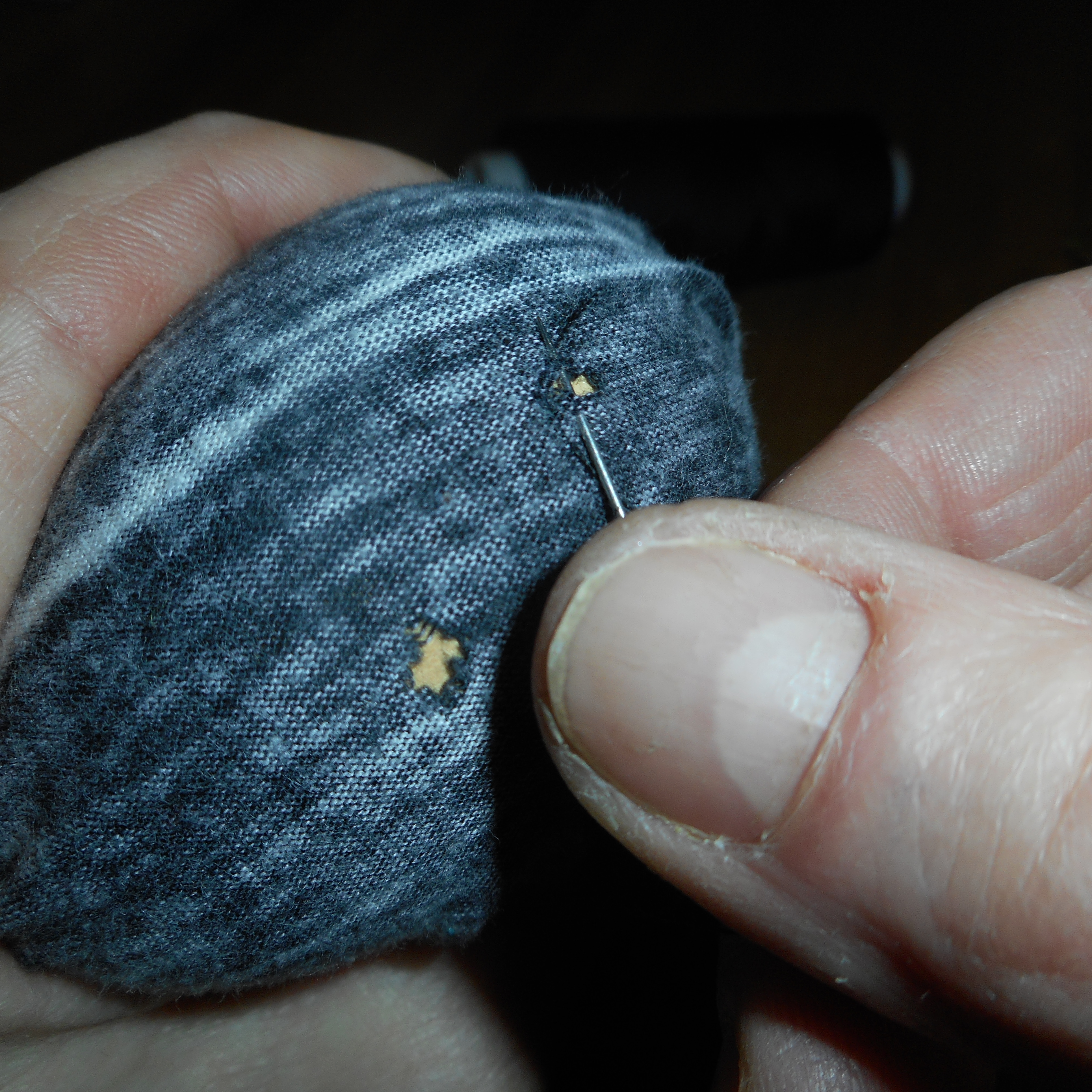 mending hole with darning mushroom, needle and thread